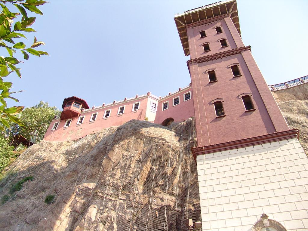 A historic elevator named as Asansör, located at Mithatpaşa, İzmir, TurkeyPazar Macerası